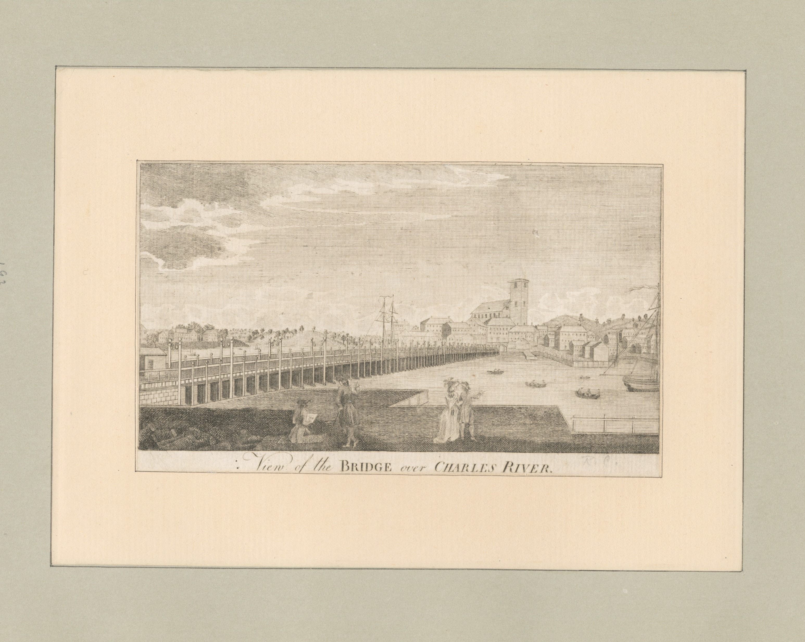 Includes photomechanical reproductions. Printmakers include William Birch, Asher B. Durand, Henry Bryan Hall, Charles Hullmandel, James Barton Longacre, Albert Rosenthal, Max Rosenthal & John Sartain. Draughtsmen include David McNeely Stauffer. Title from Calendar of Emmet Collection. EM10074